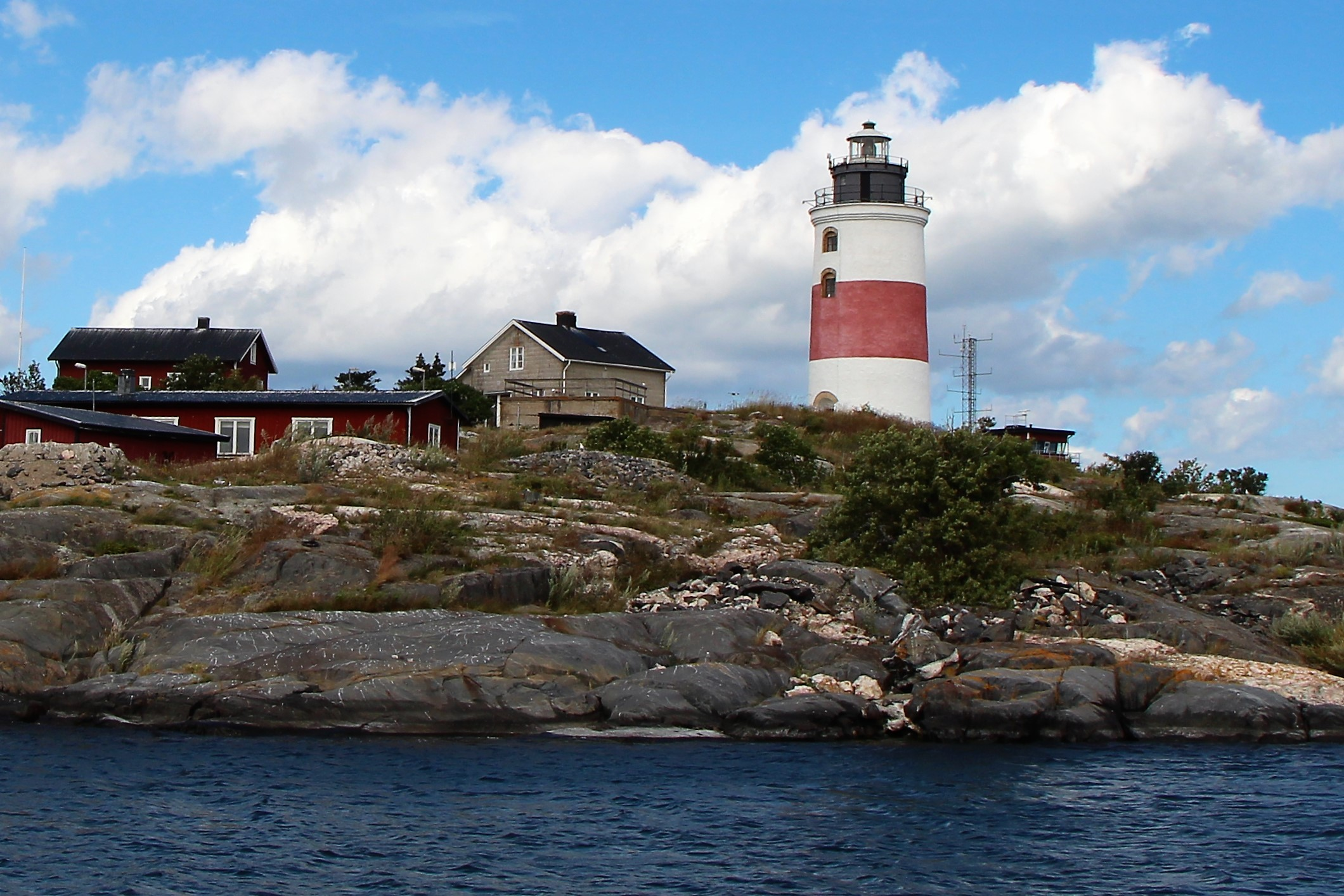 The lighthouse of Söderarm in the archipelago of Stockholm.